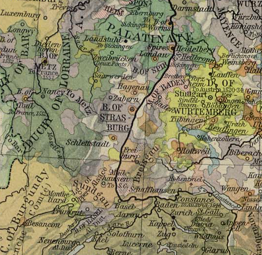 Modern map showing the Bishopric of Strasbourg and part of the Rhineland circa 1547